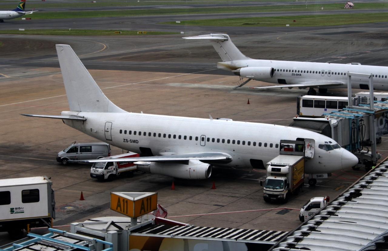 Star Air Cargo B737-219 (A) ZS-SMD